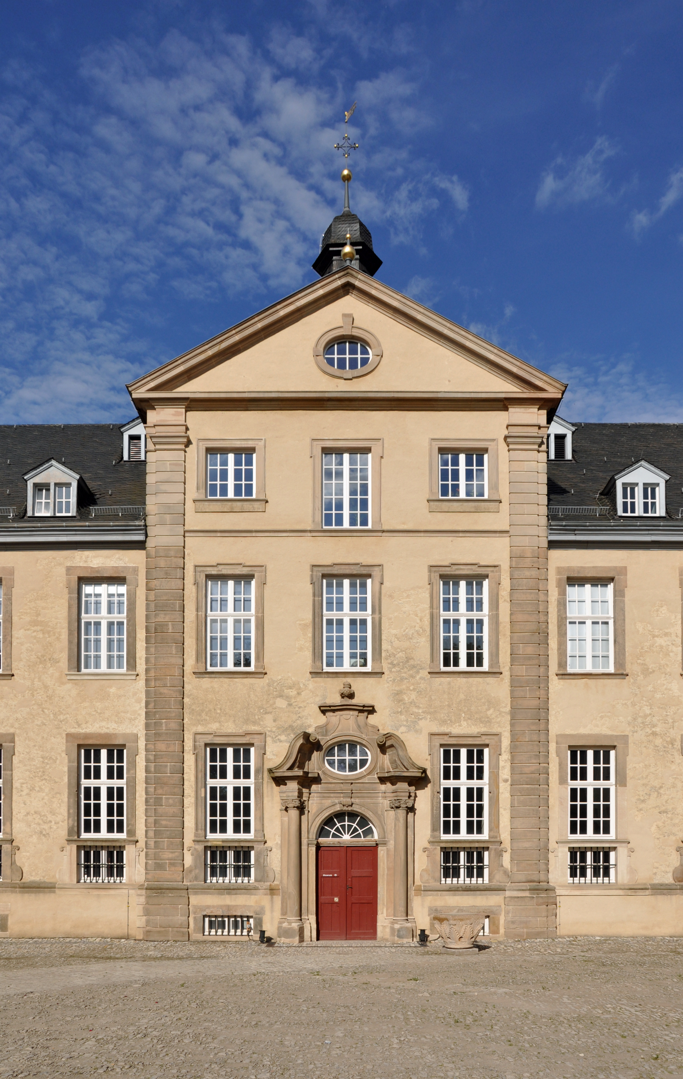 Lichtenau (Westphalia, Germany): the former monastery of Dalheim